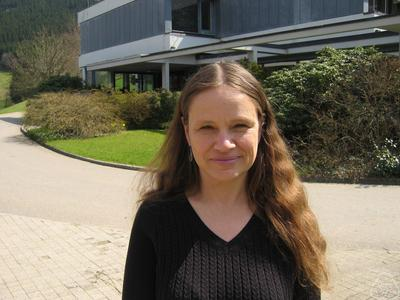 Linda Petzold at the Mathematical Research Institute of Oberwolfach